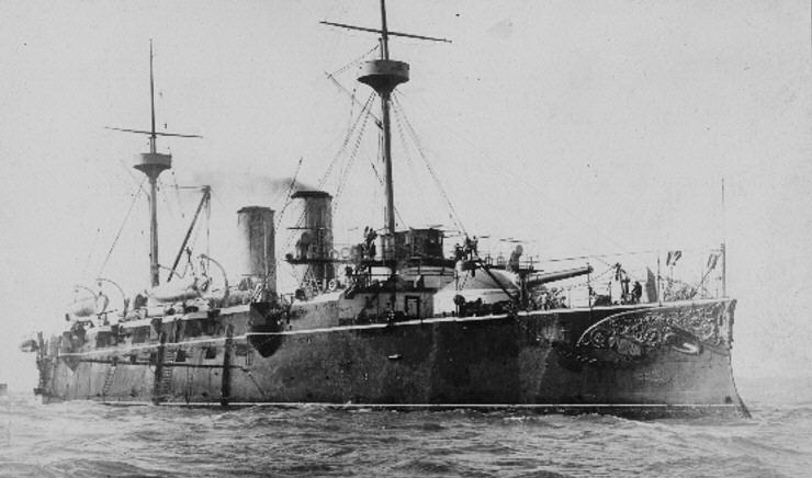 Spanish Navy armored cruiser Vizcaya